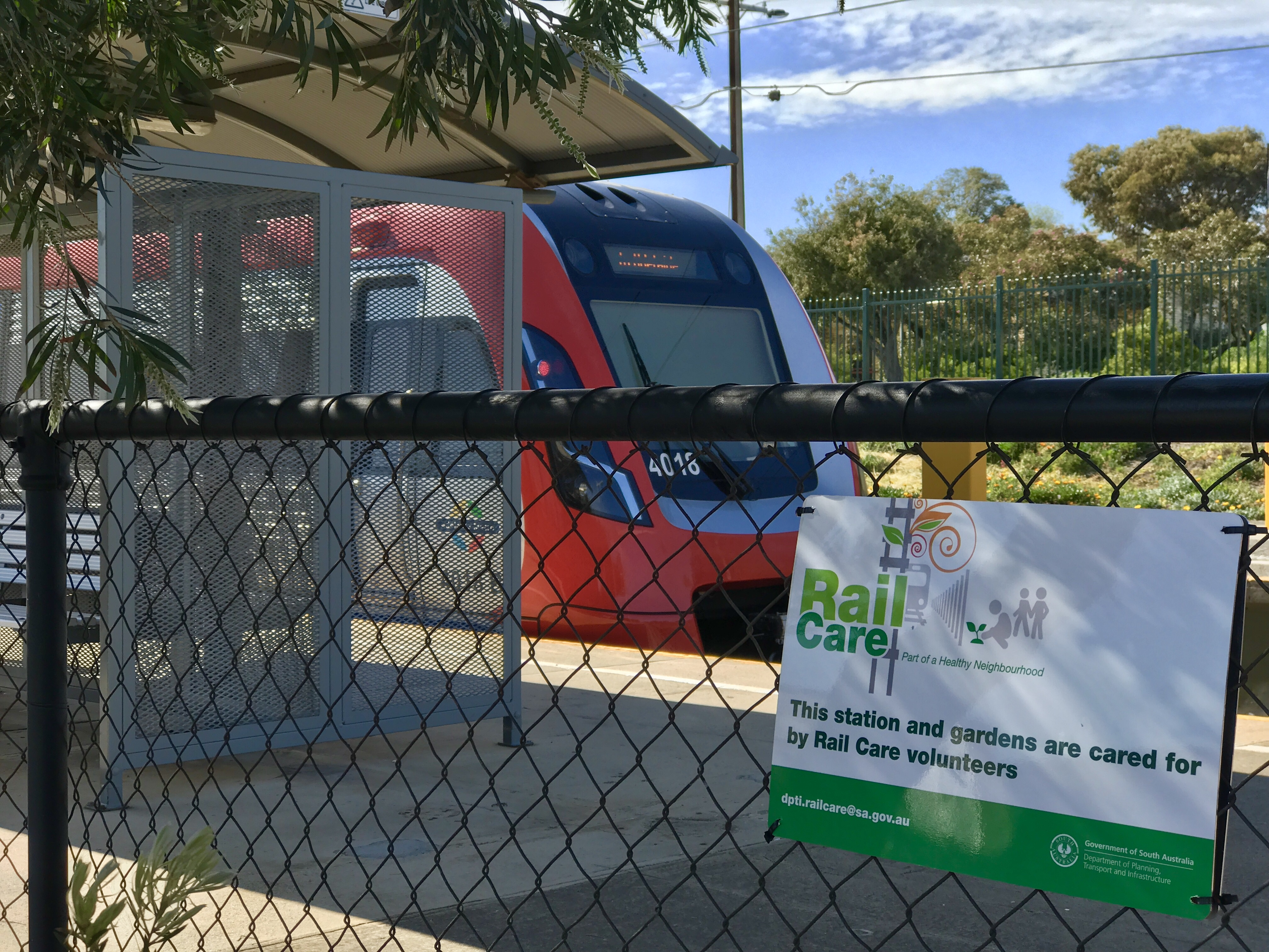 Marino Rocks is officially a Rail Care station cared for by the community.